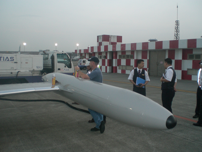 The Tip Tank of a Learjet 36